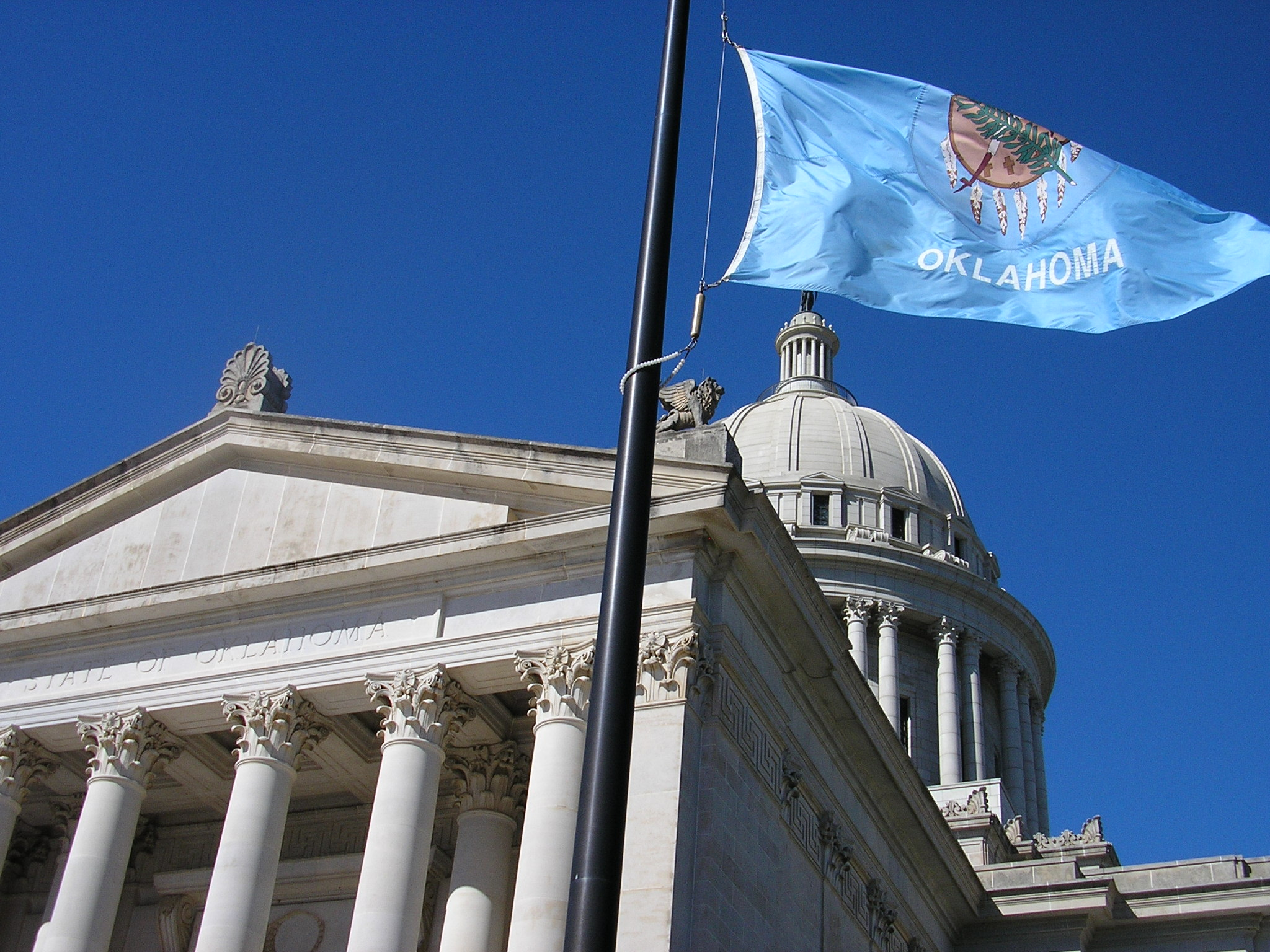 The Oklahoma Flag waving outside of the Oklahoma State Capitol.